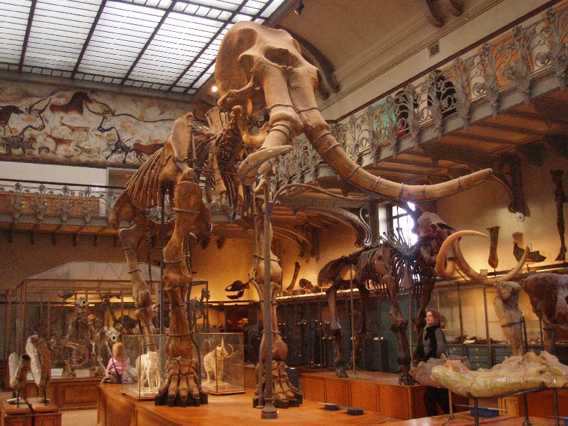 Two mammoth skeletal mounts on exhibit at the French National Museum of Natural History in Paris: a southern mammoth (the big skeleton in the foreground, Mammuthus meridionalis) and a woolly mammoth (the smaller skeleton in the background, Mammuthus primigenius). The big skeleton, the southern mammoth, was found in 1869 in the south of France and is constituted by fully fossilised bone in rock. The smaller one is subfossil bone from a frozen individual found in 1901 in the permafrost of the Lyakhov islands. This skeleton of a frozen woolly mammoth was given in 1912 by the Russian count Alexander Stenbock-Fermor to the Natural History Museum of France and is the only specimen that left Russia before the Russian Revolution broke out in 1917. Some parts of the skin had been preserved and are on exhibit in a nearby display cabinet. After the flesh was ripped off, the skeleton was mounted and exhibited as it is seen here as of 1958.